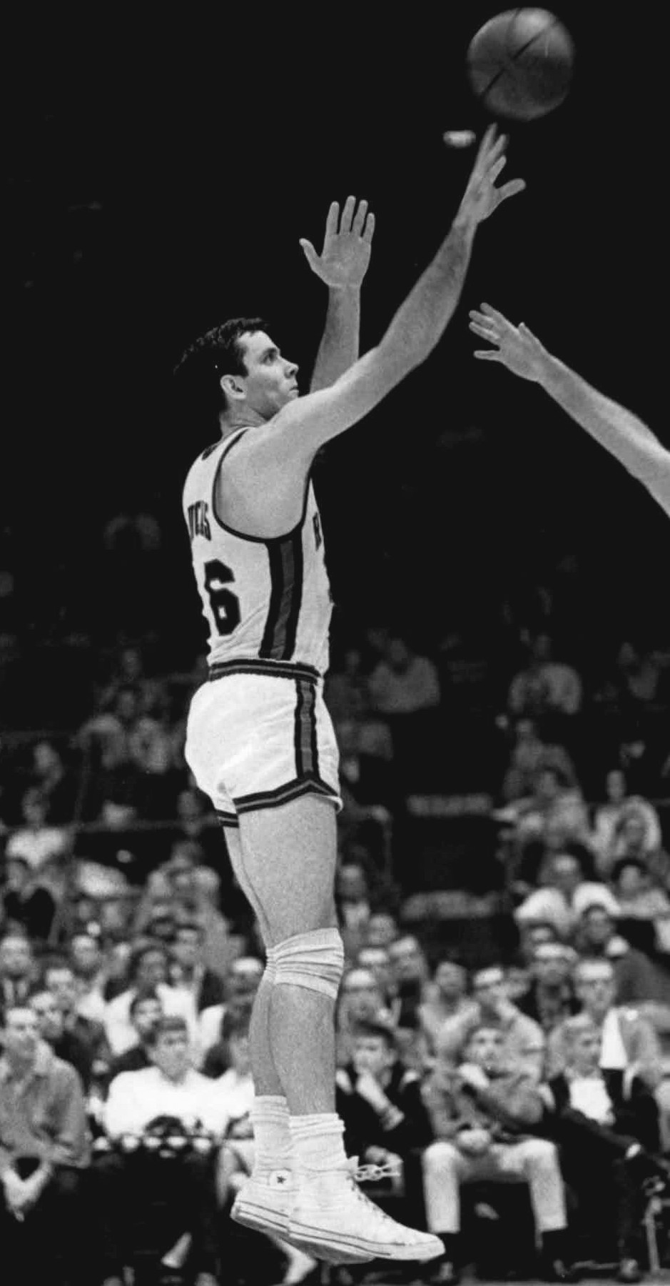 Professional basketball player Jerry Lucas